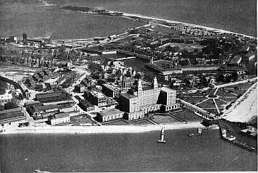 Fort Monroe, Virginia − in 1934.